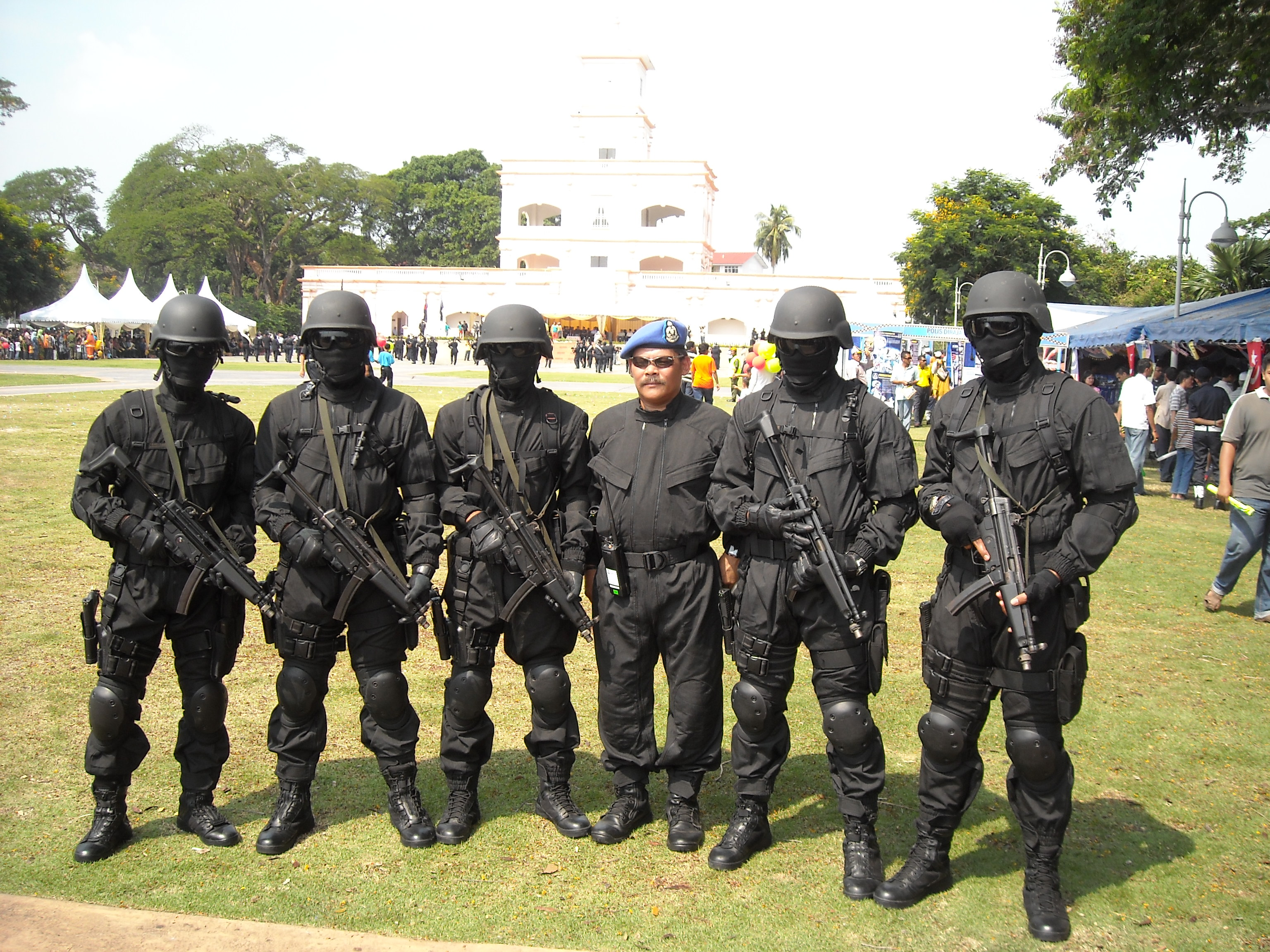 Masked UNGERIN operators with the leader ASP Nassim. Taken by me at Muar city during the Community Policing shows and exhibitions.